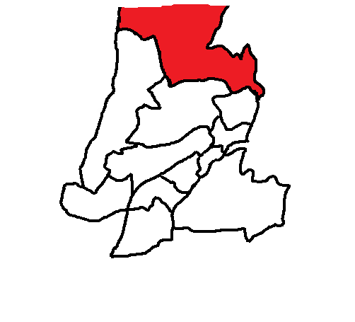 Map based on work by Earl Andrew, from maps used in 2007 elections Map based on work by Earl Andrew, from maps used in 2007 elections